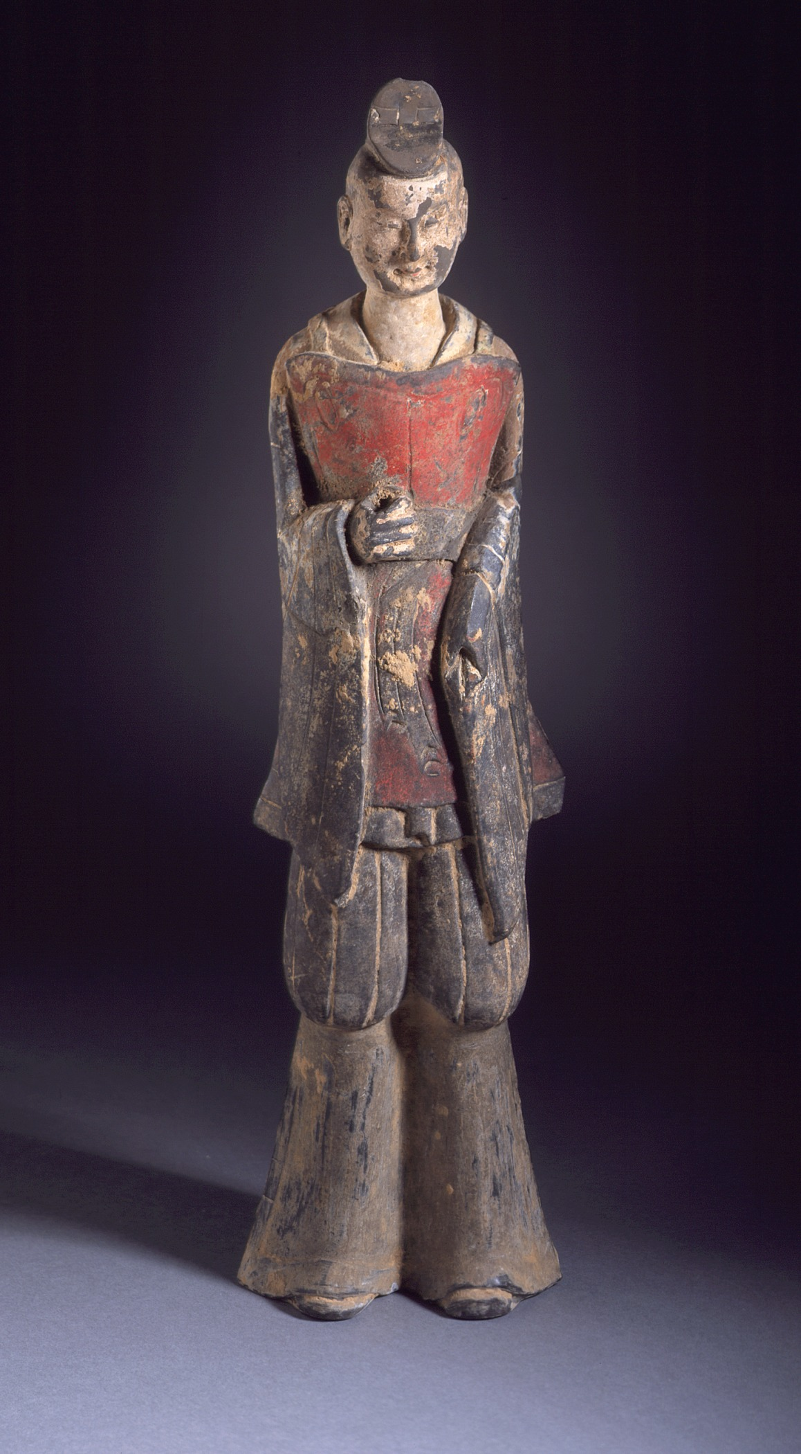 China, Six Dynasties period, late Northern Wei dynasty, about 500-534 Sculpture Molded earthenware with white slip and traces of paint 14 1/8 x 3 3/4 x 1 7/8 in. (35.88 x 9.53 x 4.76 cm) Gift of Mr. and Mrs. Eric Lidow (M.79.110.2.1-.2) Chinese Art